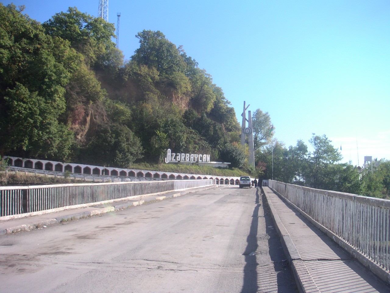 The land border between Azerbaijan and the Republic of Georgia, with Balakan rayon on the Azerbaijani side and Lagodekhi on the Georgian side.